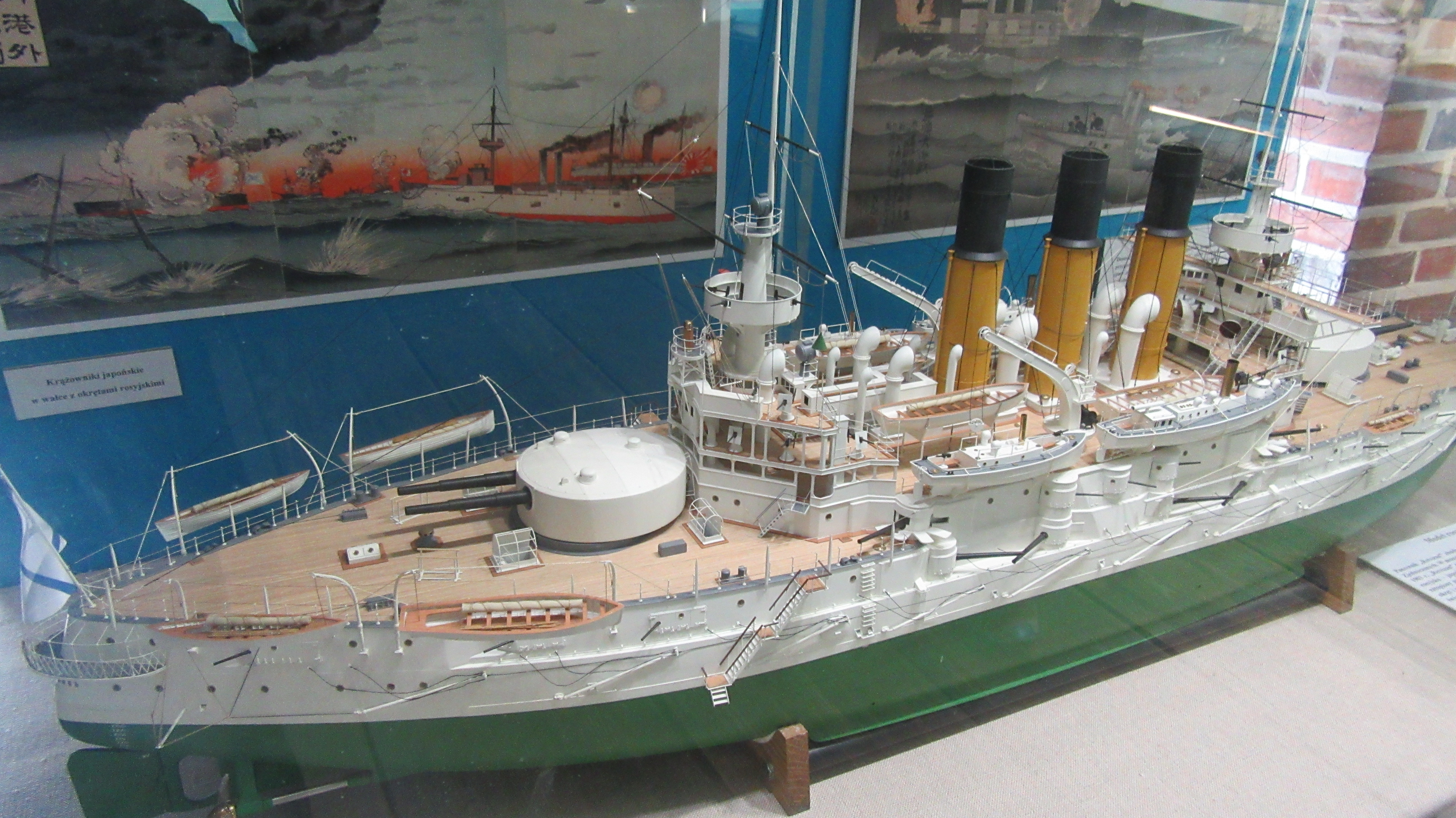 Model of .... in National Maritime Museum in Gdańsk, Poland.